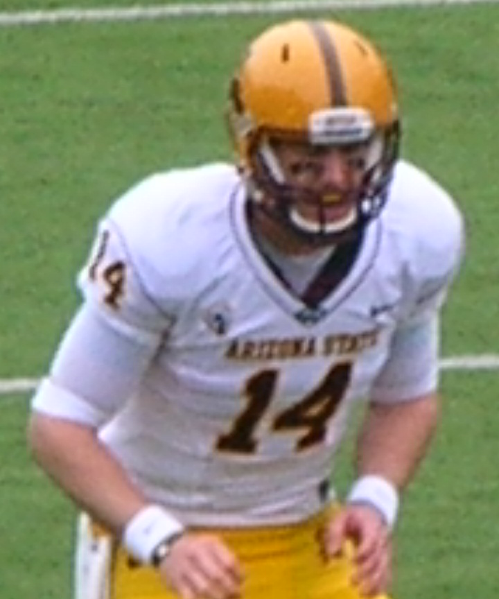 Arizona State quarterback Steven Threet at an away game against California at Memorial Stadium.